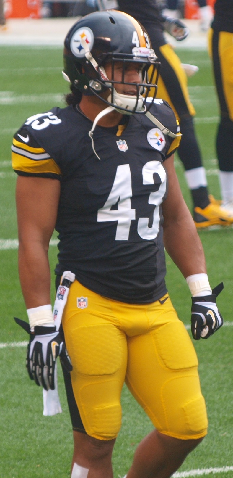 Pittsburgh Steelers safety, Troy Polamalu, in 2013.